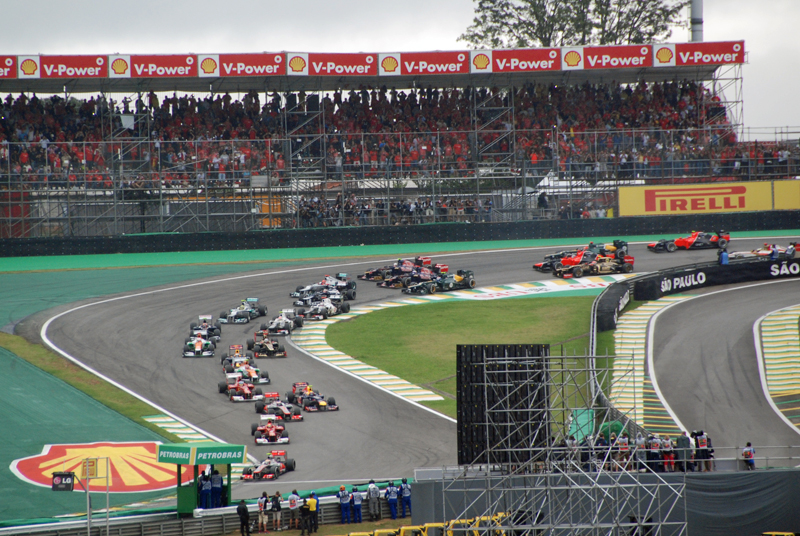 Start of the 2012 Brazilian Grand Prix